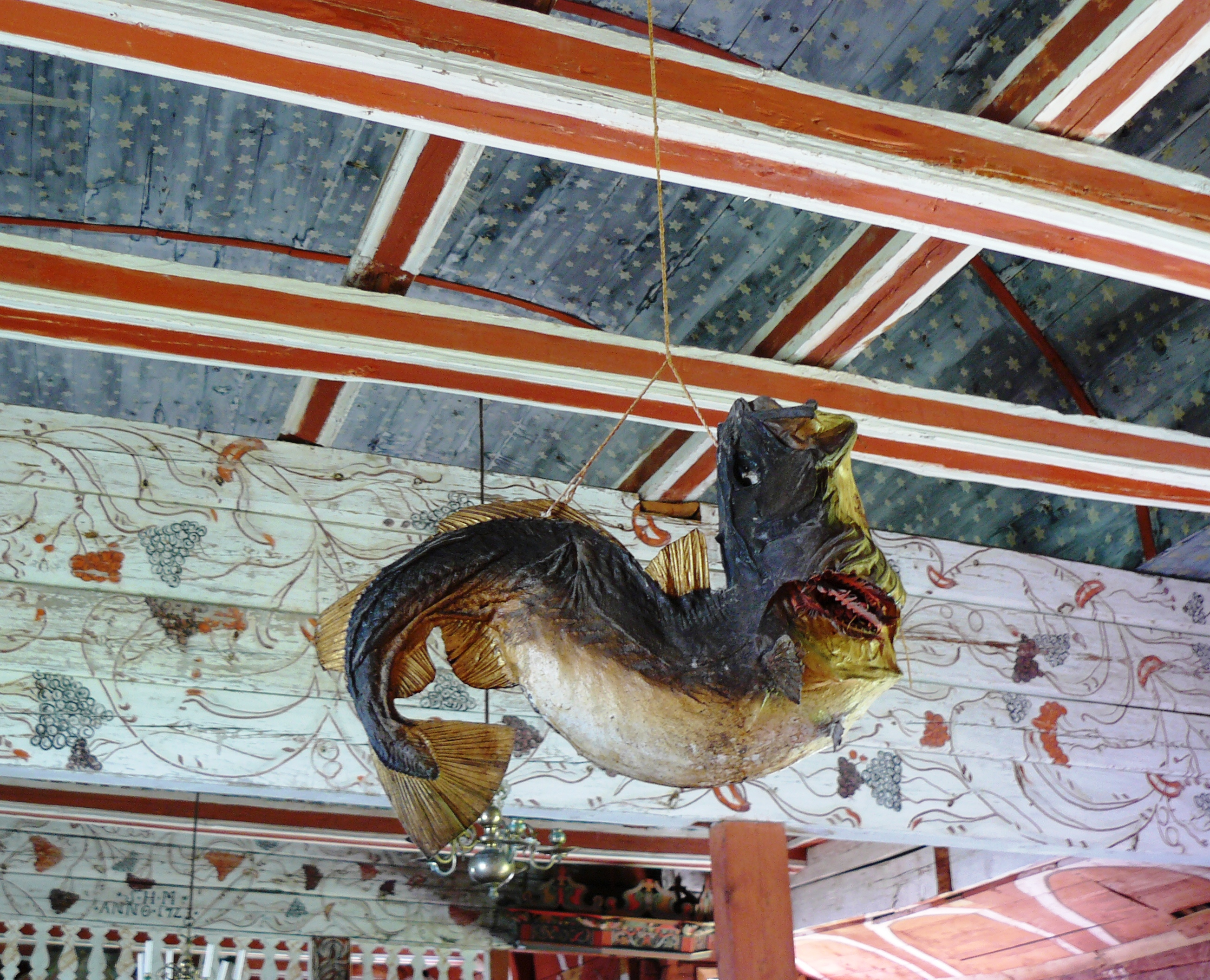 Gimmestad old church in Gloppen has a cod as a symbol hanging in the centre of the church. It symolizing "Jonah and the whale" as well as being a weather sign, as it turns with humidity and barometric pressure